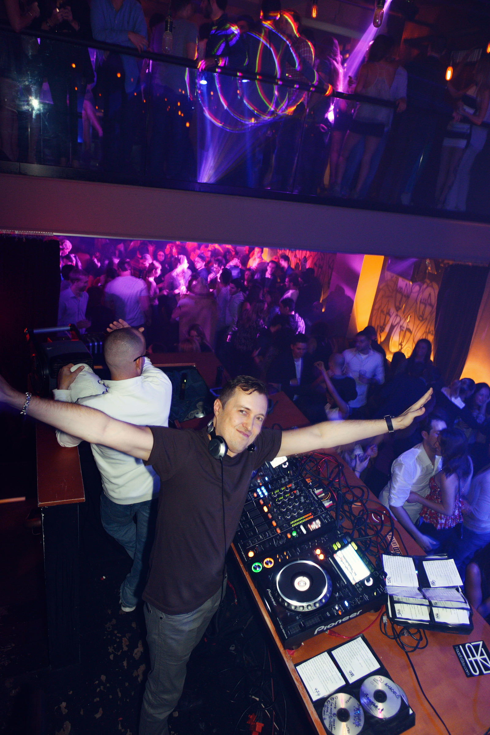 DJ Amadeus performing